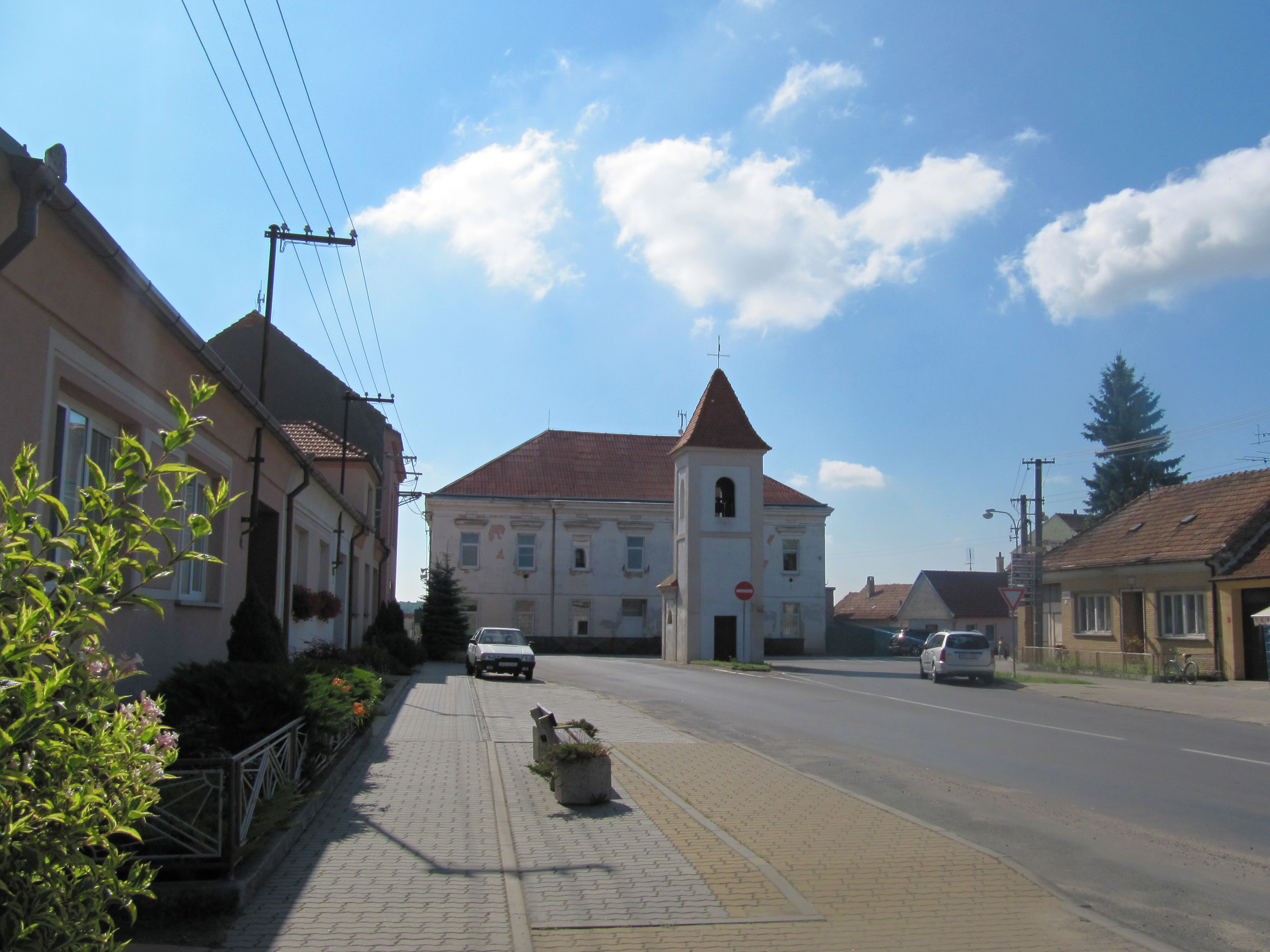 Kostice in Břeclav District, Czech Republic. Main street and chapel of St. Theresa with belfry. This photograph was taken within the scope of the third year of the 'Czech Municipalities Photographs' grant.